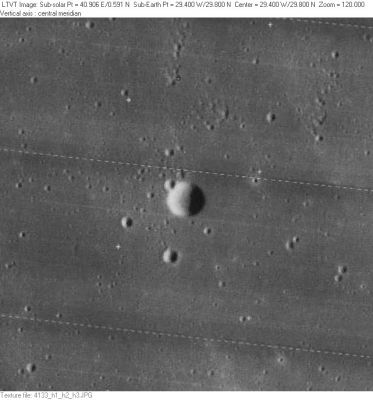 Caventou lunar crater - image LO-IV-133H